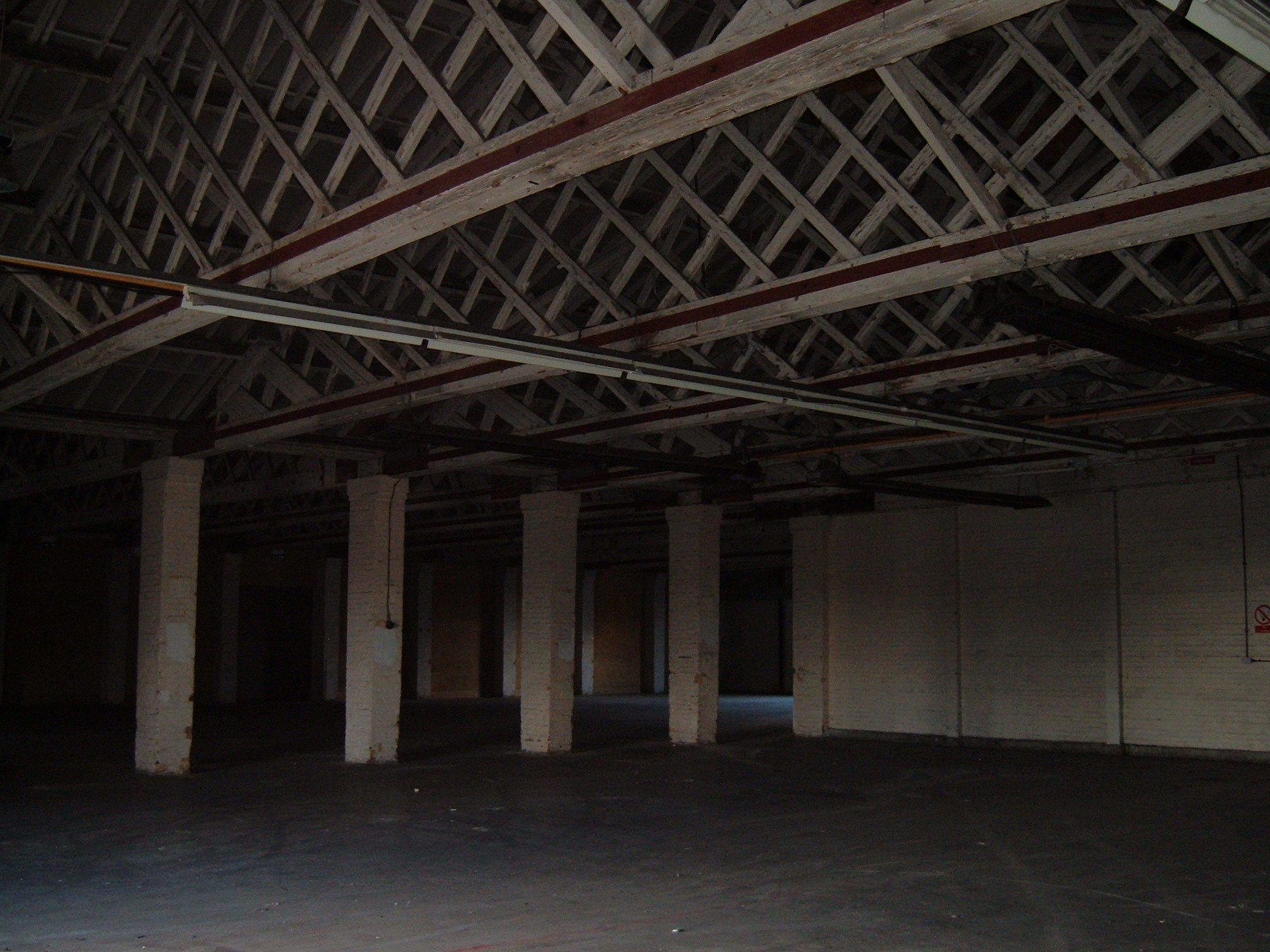 Simular roof beams to RAF Hendon's main building.